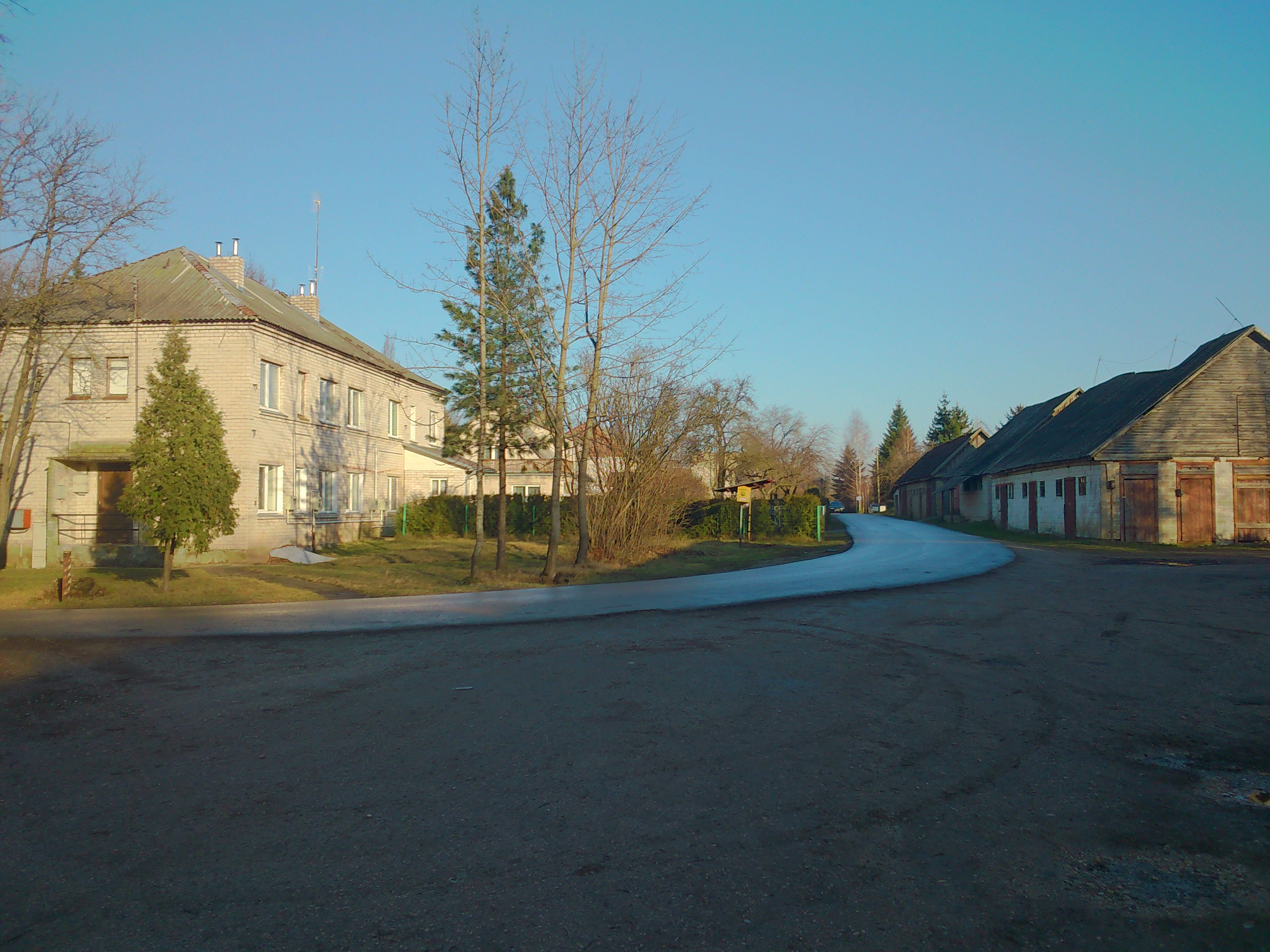 Miskininku Street-Jonava